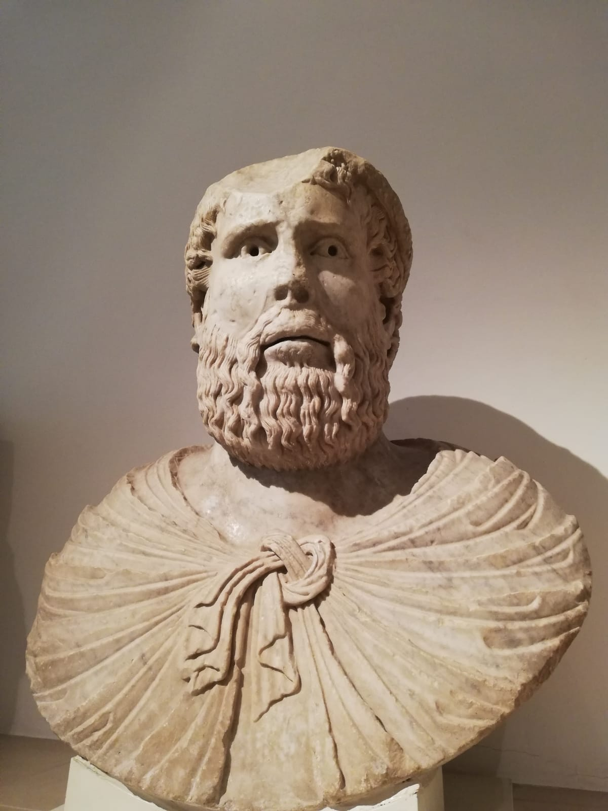 Statue of Pier delle Vigne in Museo Campano, Capua, Italy